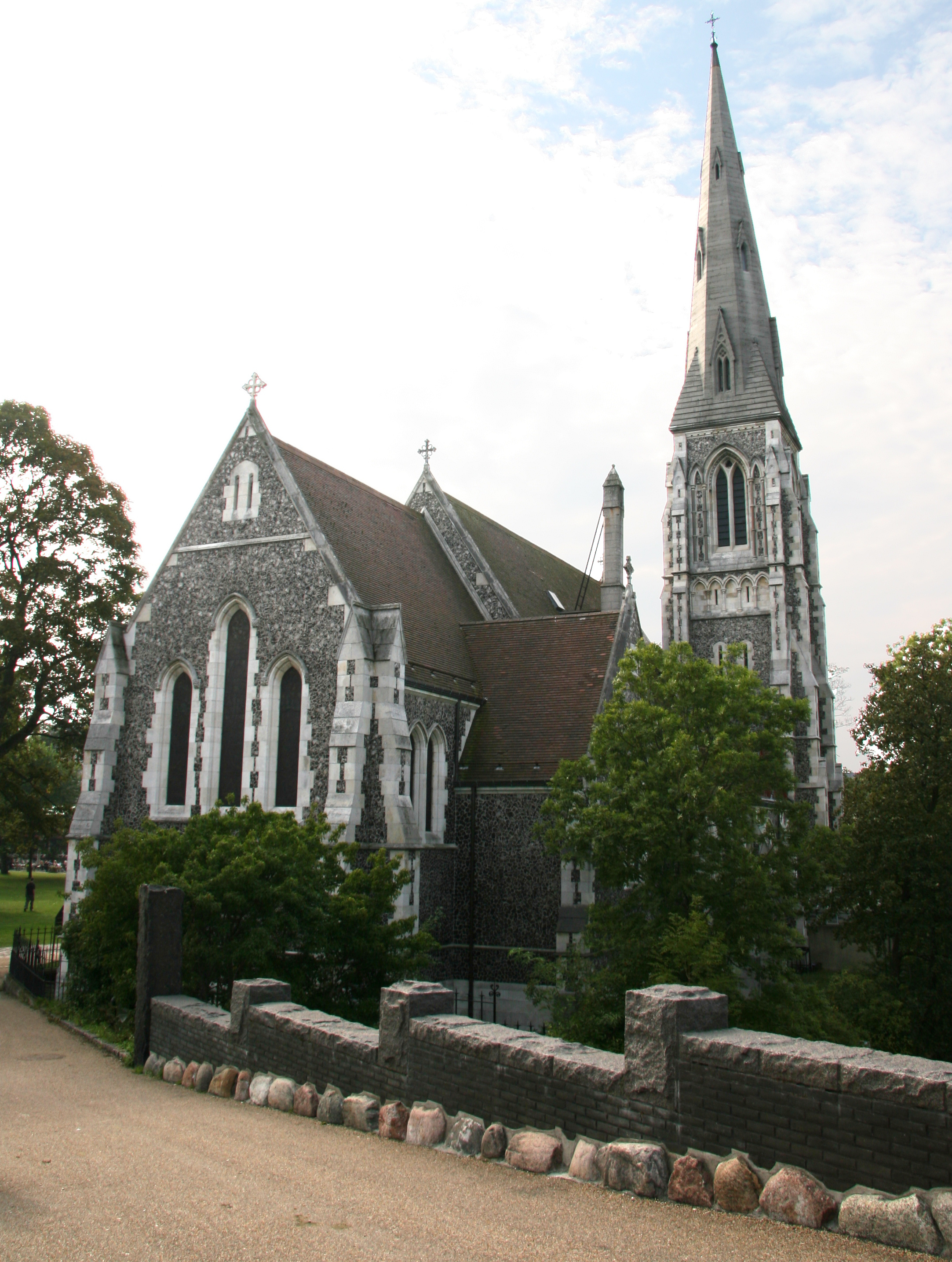 St. Alban's English Church, Copenhagen, Denmark From northeast